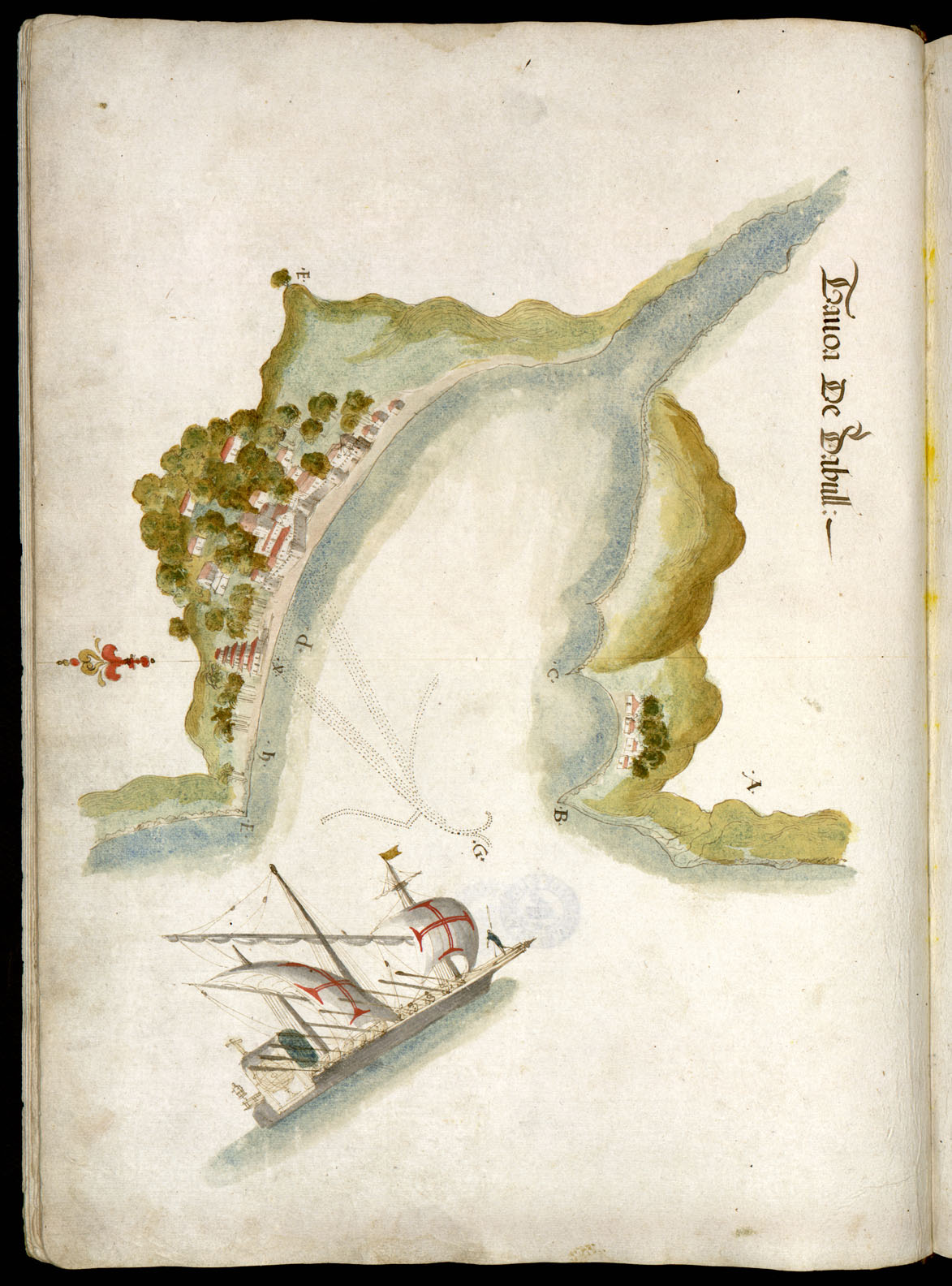 A 16th century Portuguese watercolour depiction of the port city of Dabul in India, entitled Távoa de Dabull ("Plate of Dabul") featuring also an unusual Portuguese bastard-galley, sporting a square-rigged mast at the bow. Drawn by Dom João de Castro in 1538, for his work Roteiro de Goa a Diu, an itinerary in which were compiled geographical and hydrographical information of the western coast of India between Goa and Diu.